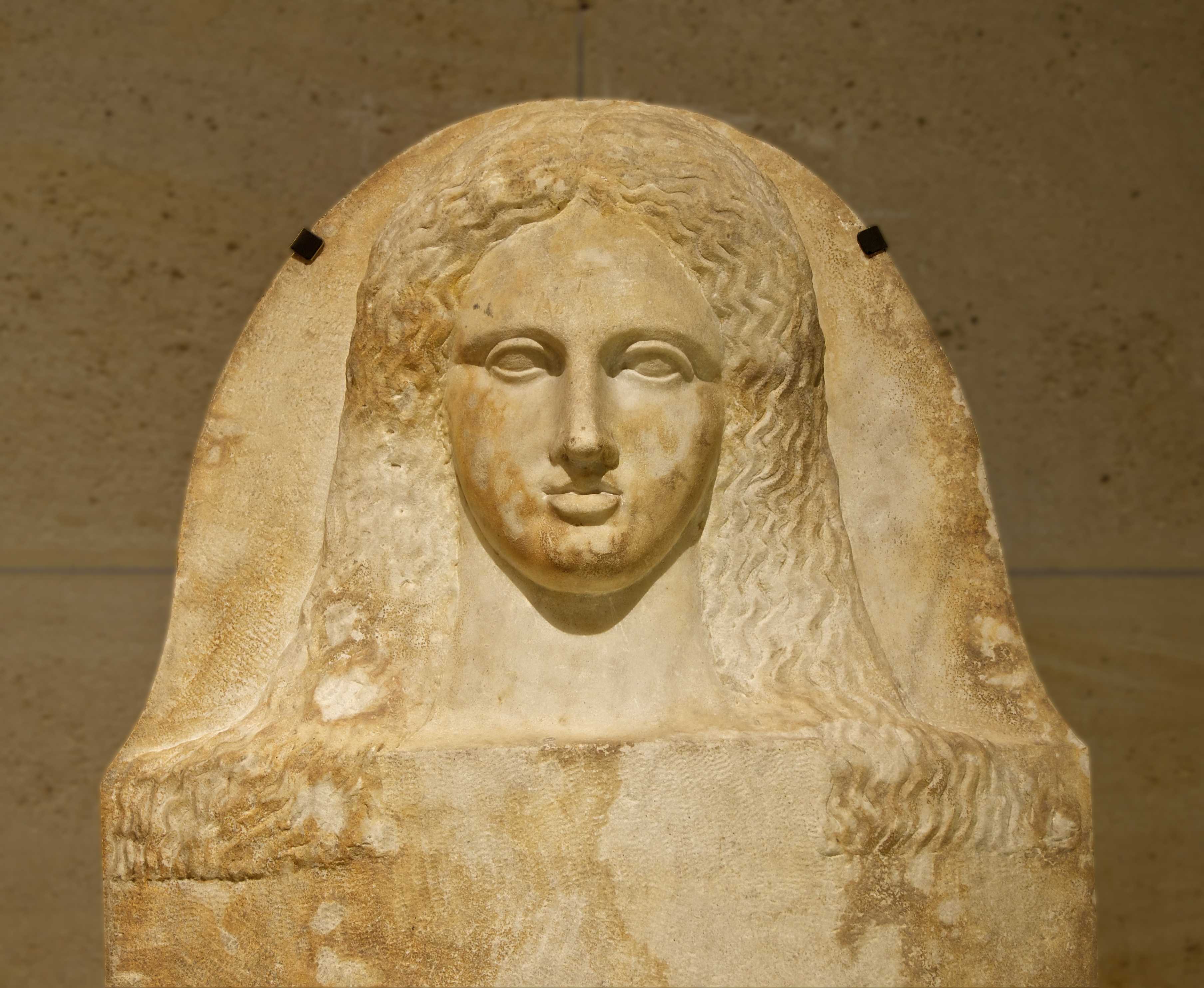 Cover of a phoenician anthropoid sarcophagus of a woman (detail). Head of a young women